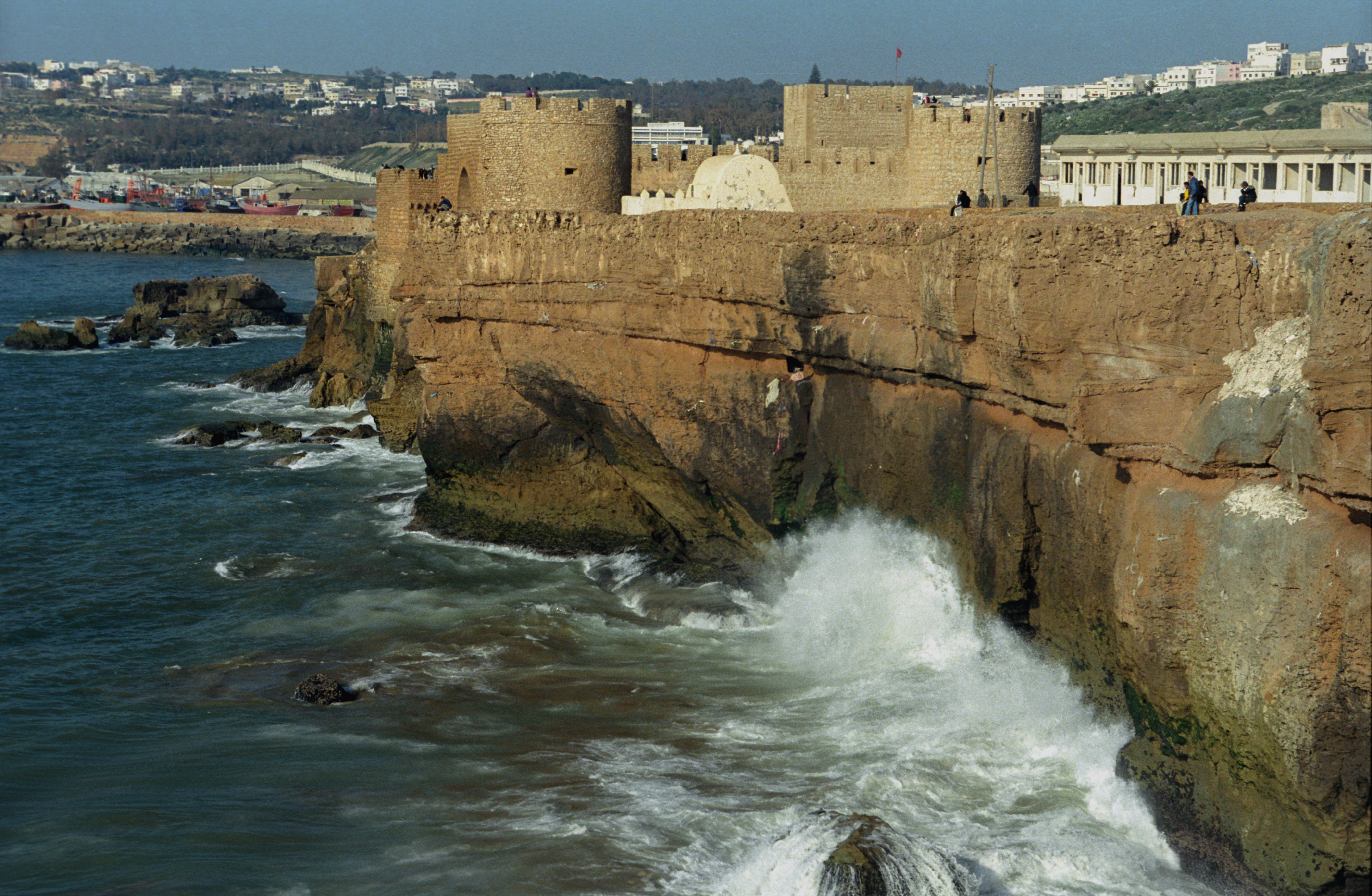 Safi, Kasr al-Bahr, Morocco - Sea Castle (New Castle)